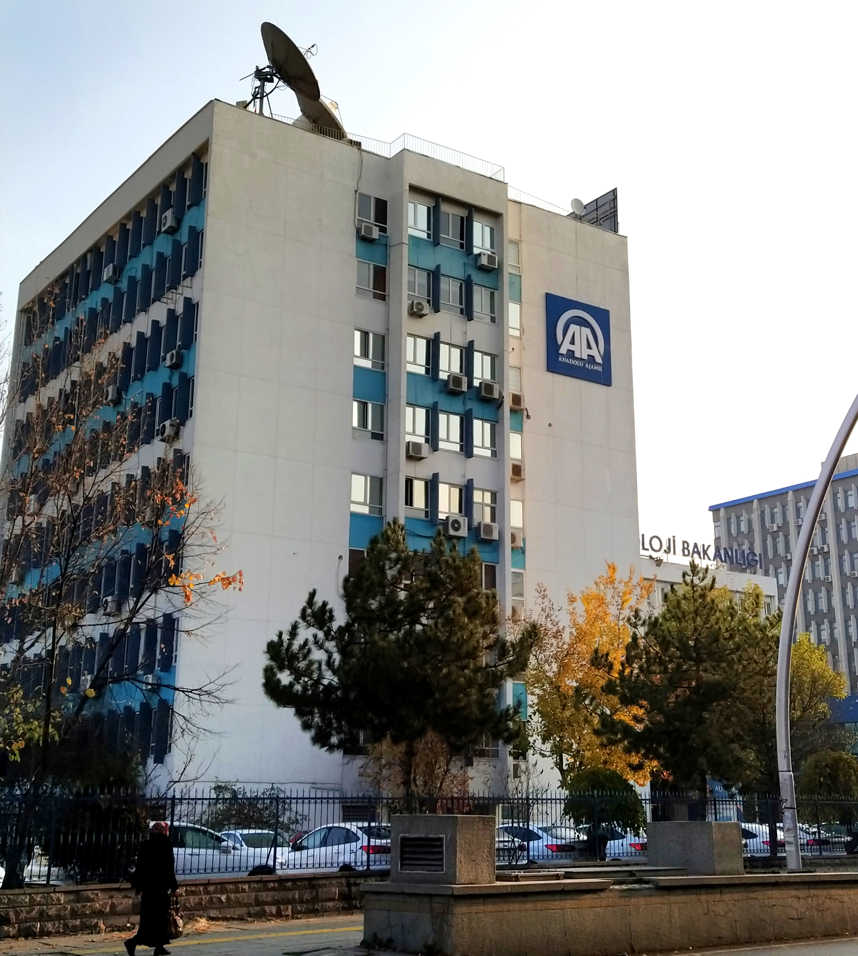 Anadolu Agency HQ in Ankara.